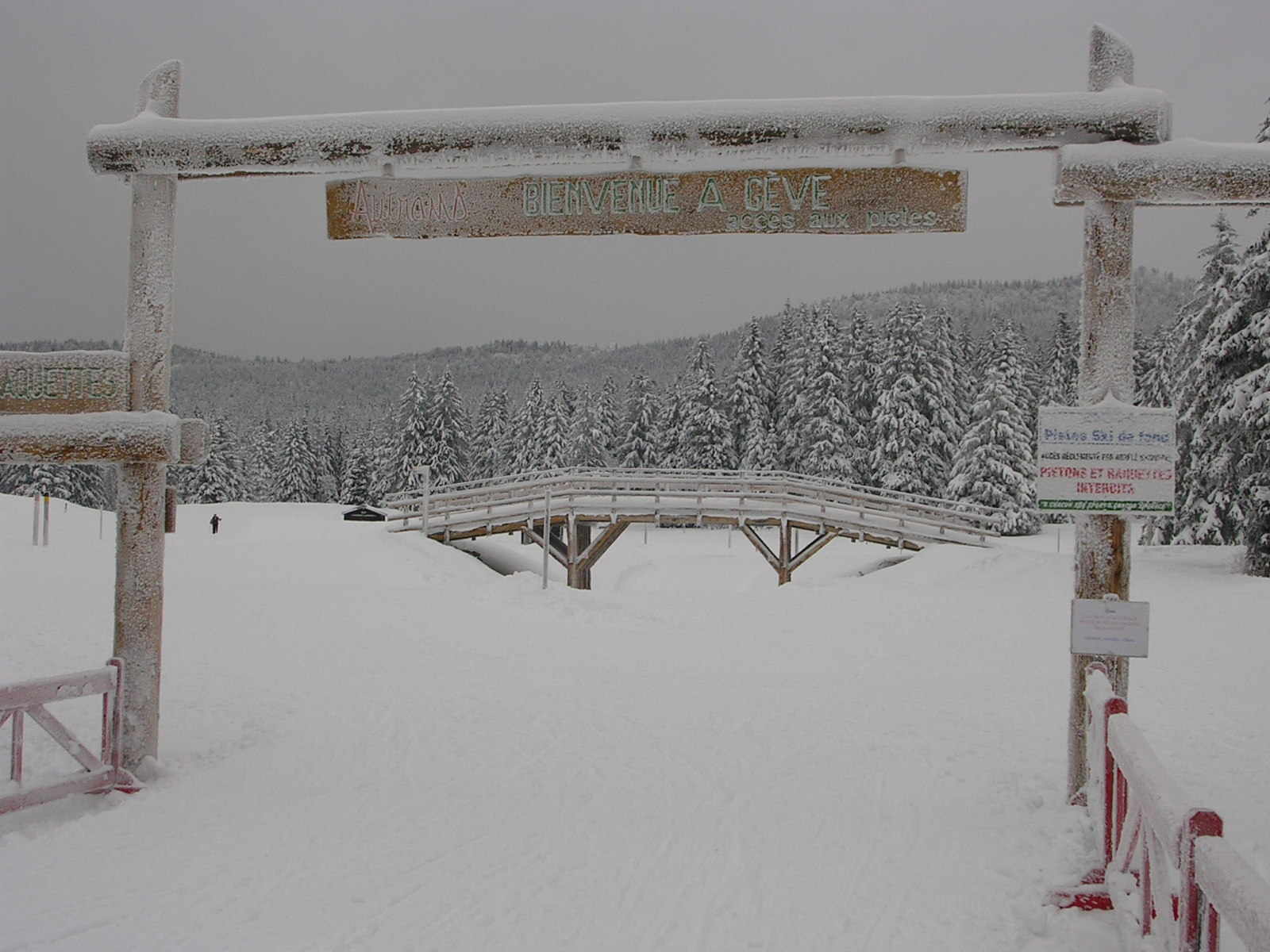 my own photograph